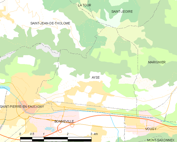 Map of French municipality Ayse